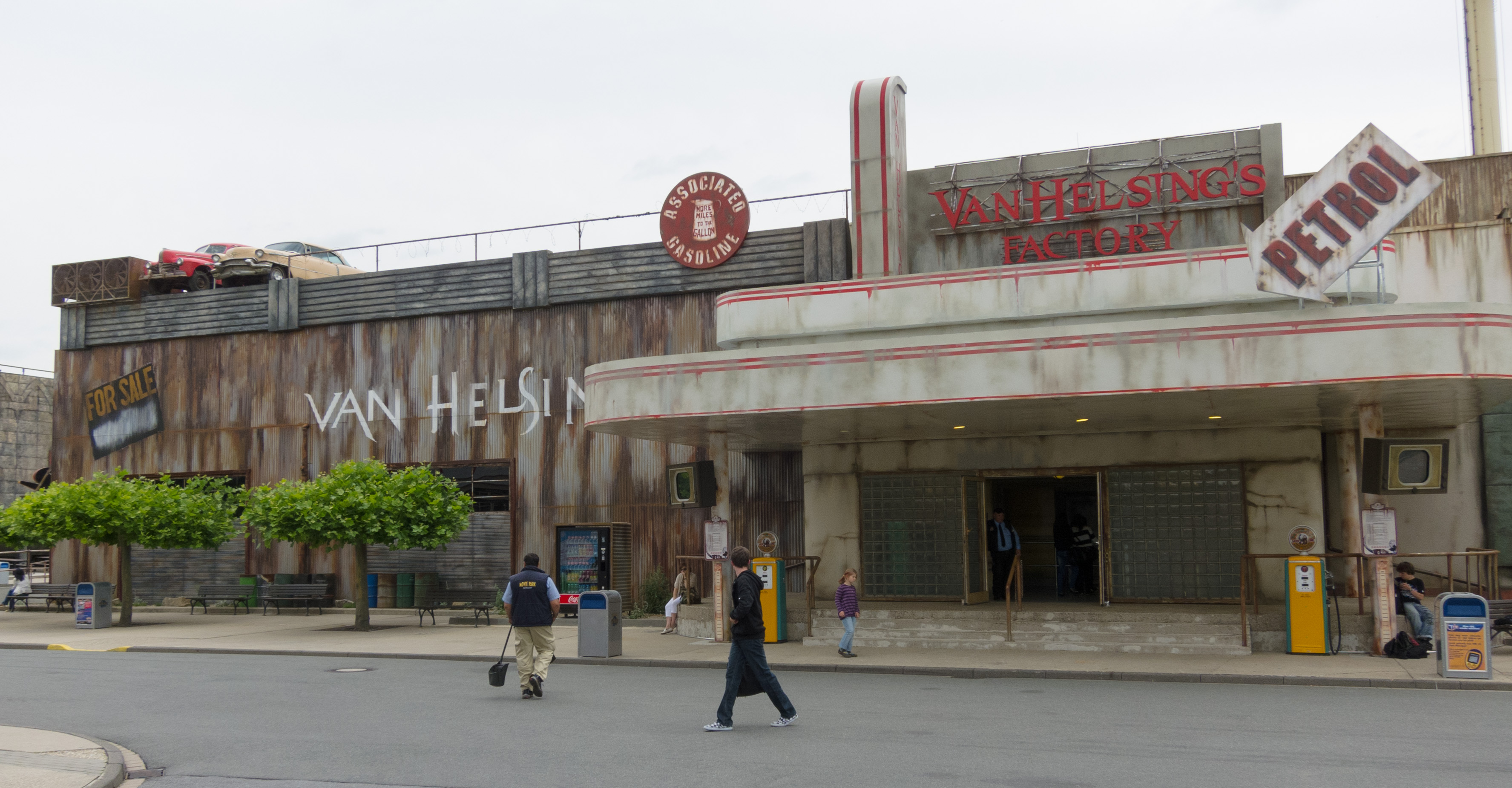 Building and entrance of roller coaster Van Helsing’s Factory at Movie Park Germany